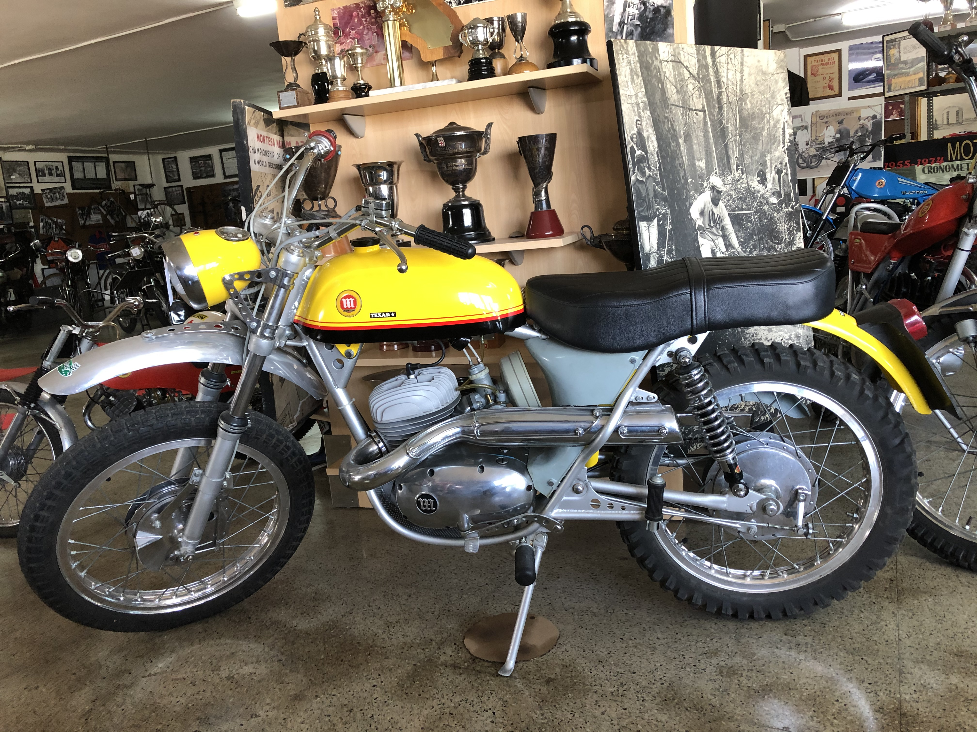 Montesa Texas 175 1966